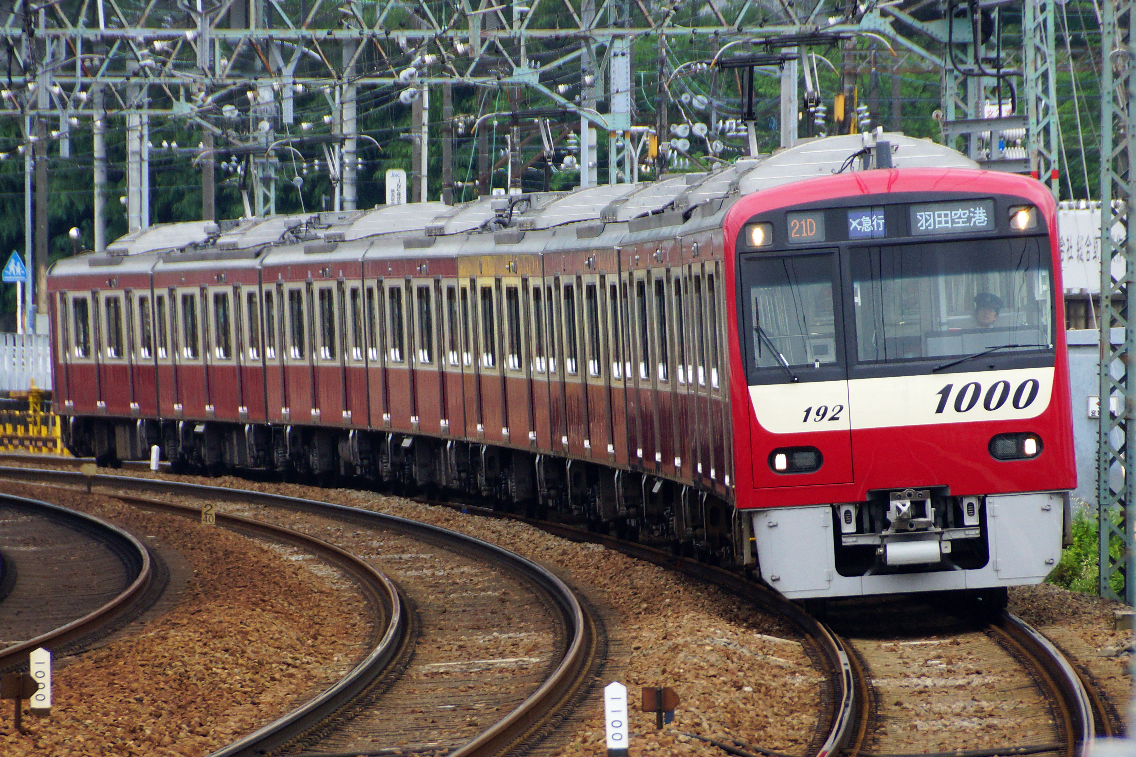 Keikyu 1000 series EMU set 1185 approaching Kanazawa-Bunko Station